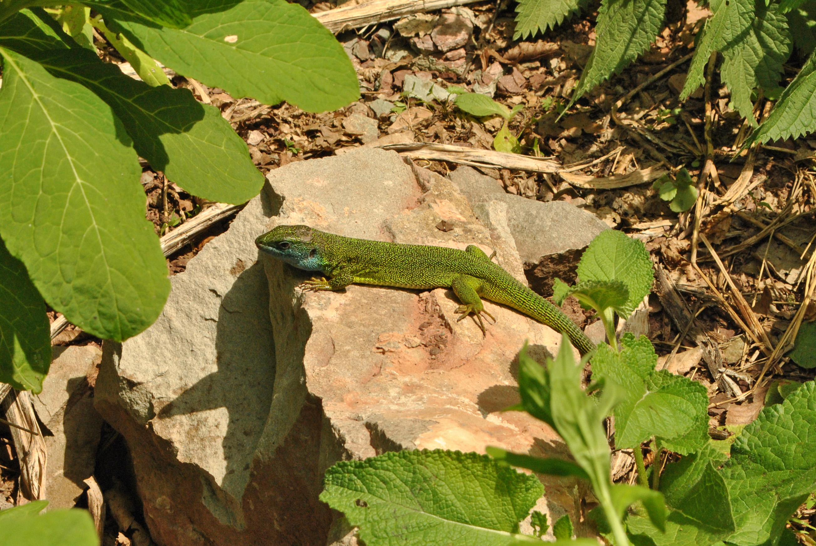 Lacerta viridis in the village of Zhnyborody